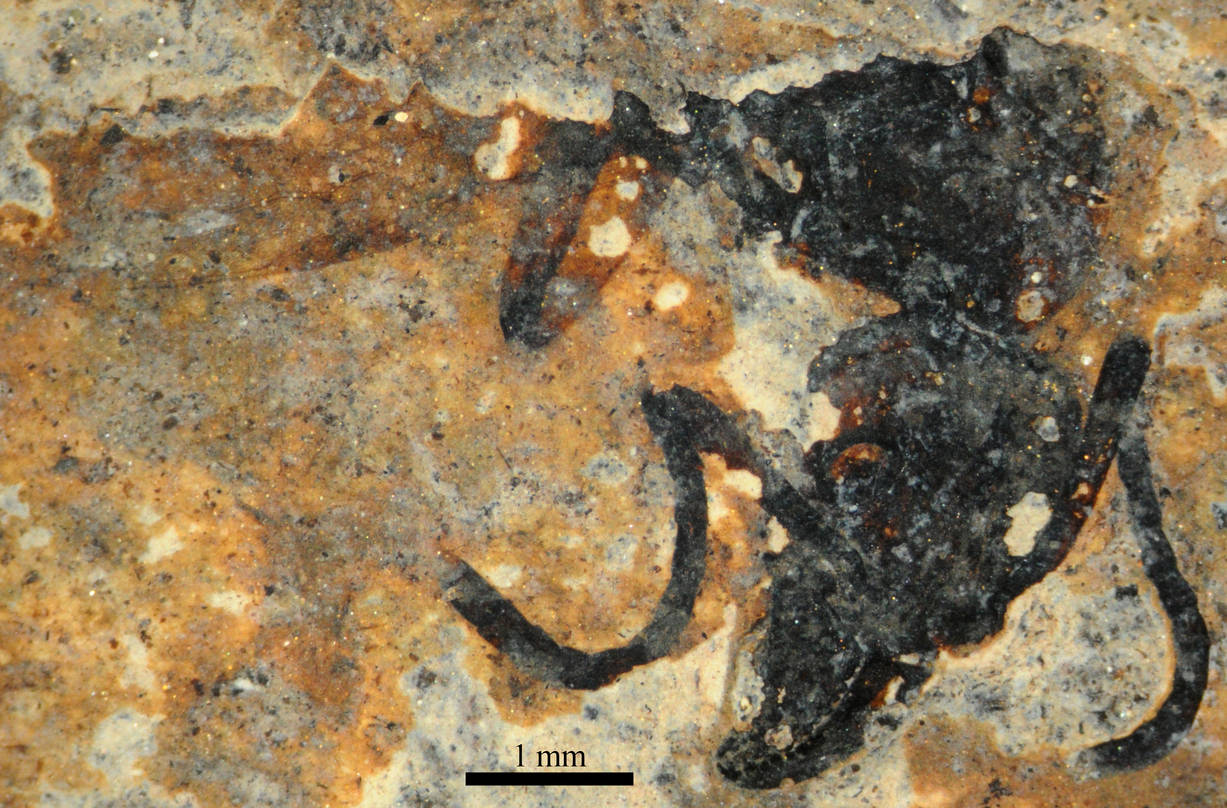 Protopone dubia specimen